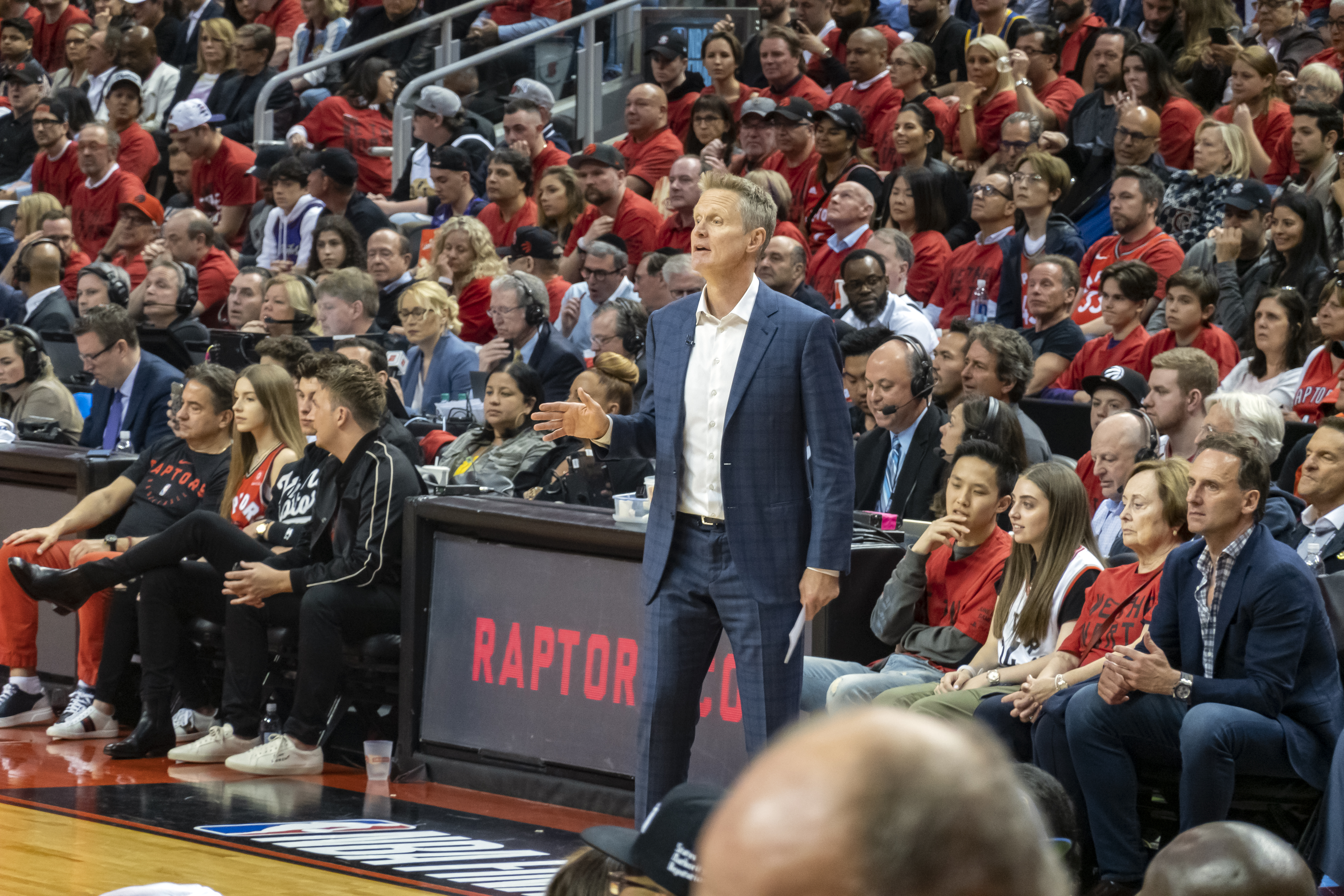 Steve Kerr at Game 2 of 2019 NBA Finals